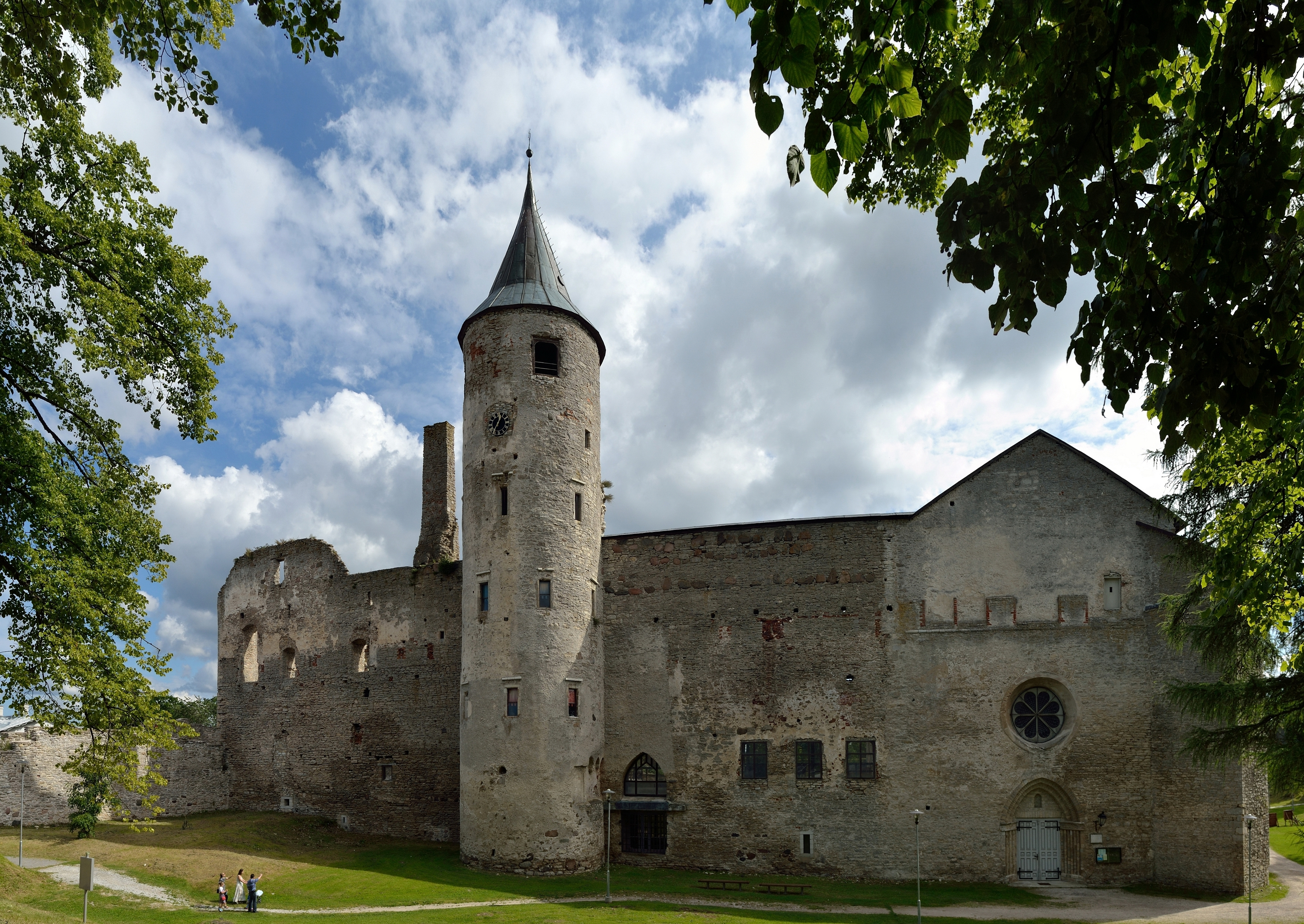 Haapsalu castle ruins